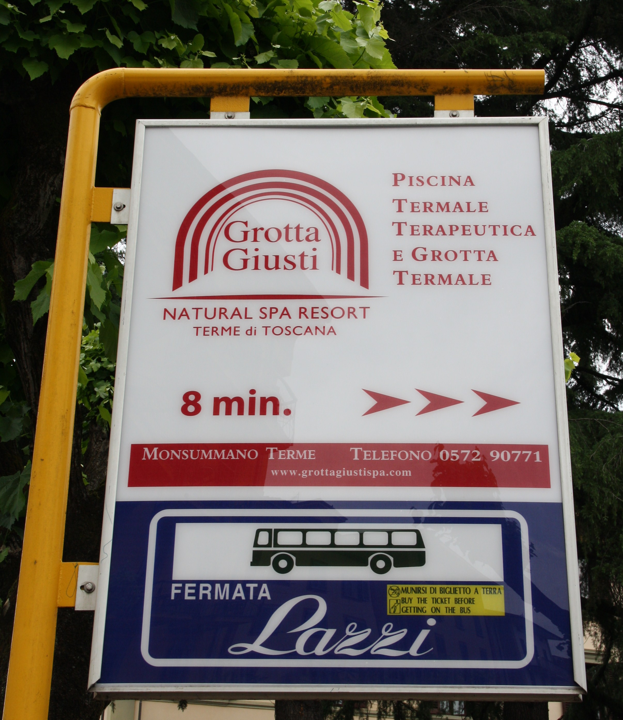 Italy, Montecatini Terme, Viale Bicchierai. Lazzi bus stop sign.